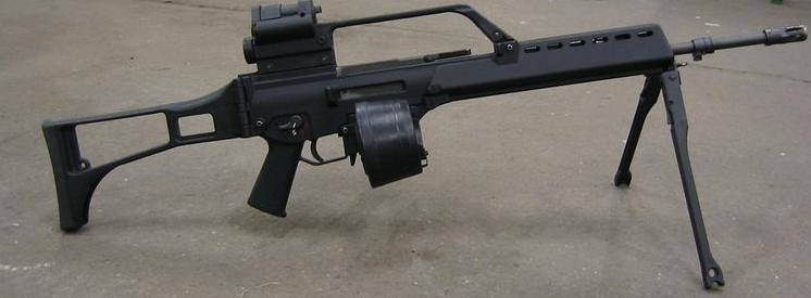 HK G36 with Bibod and 100 round drum magazine. Note: That is not a LMG36!